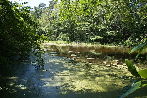 a pond at Trap Pond State Park